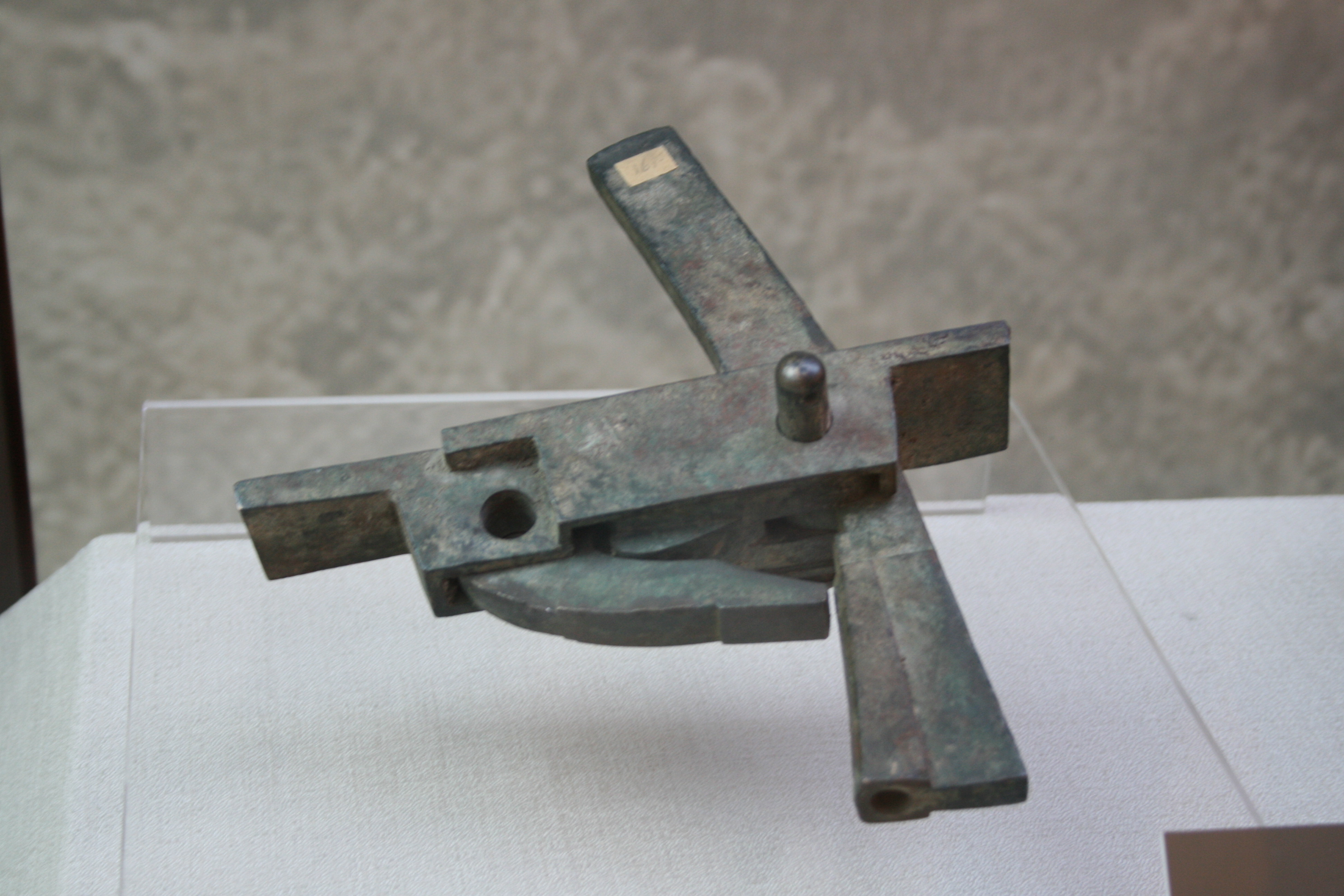 A Han crossbow trigger.